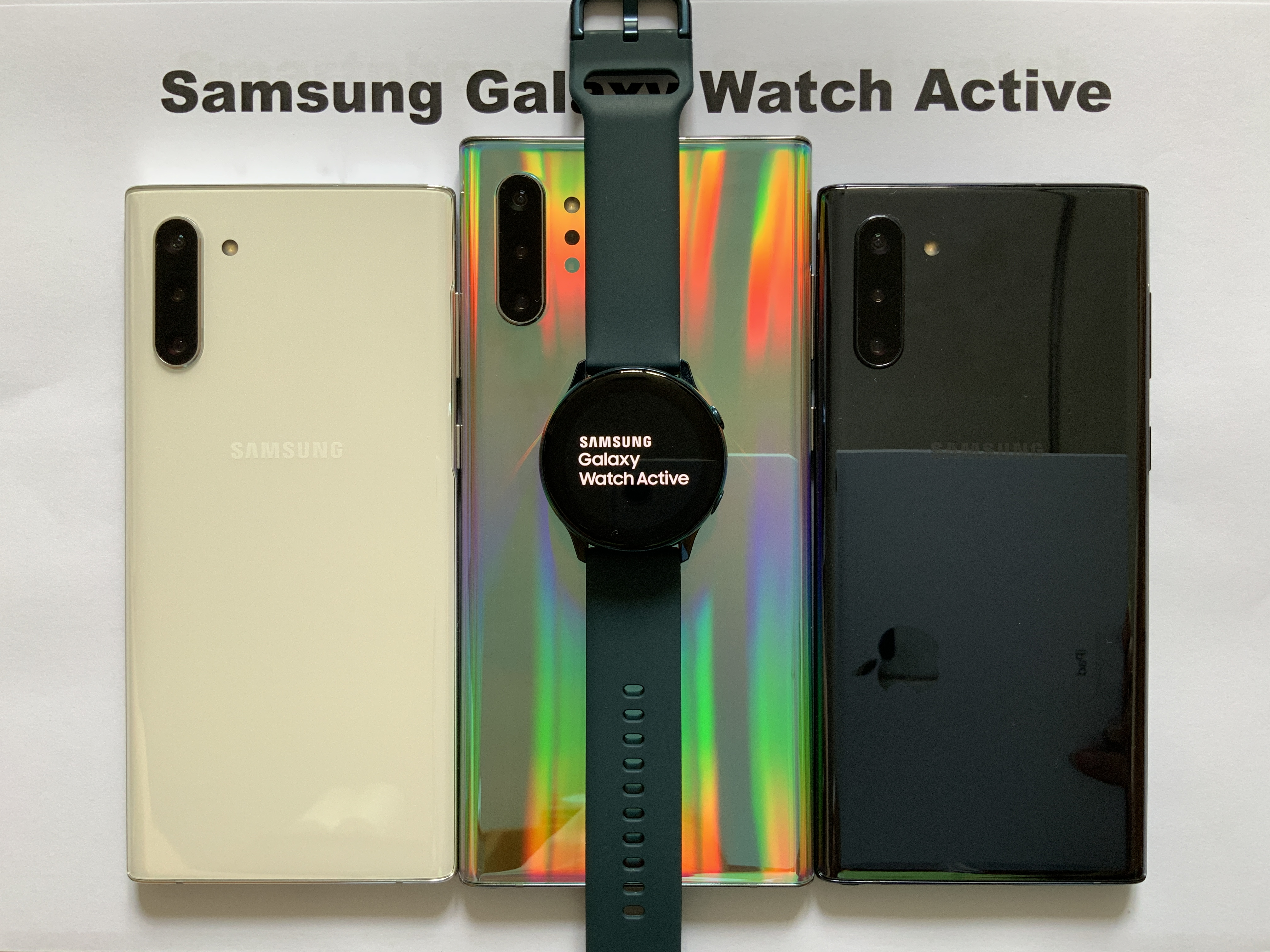 Samsung Galaxy Watch Active